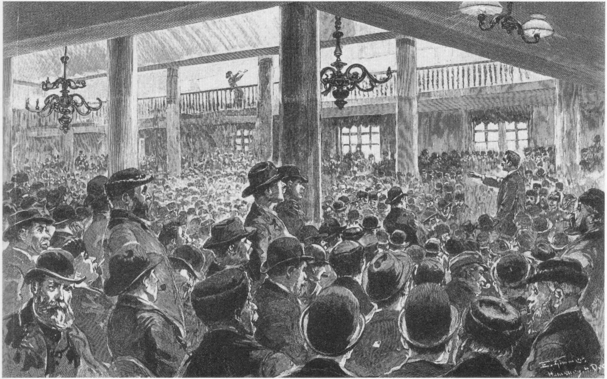 Meeting of state quay workers at “English Tivoli”, St. Georg, Hamburg, 4 December 1896, xylograph of Emil Limmer, published in „Hamburger Illustrierte Zeitung“ 1896